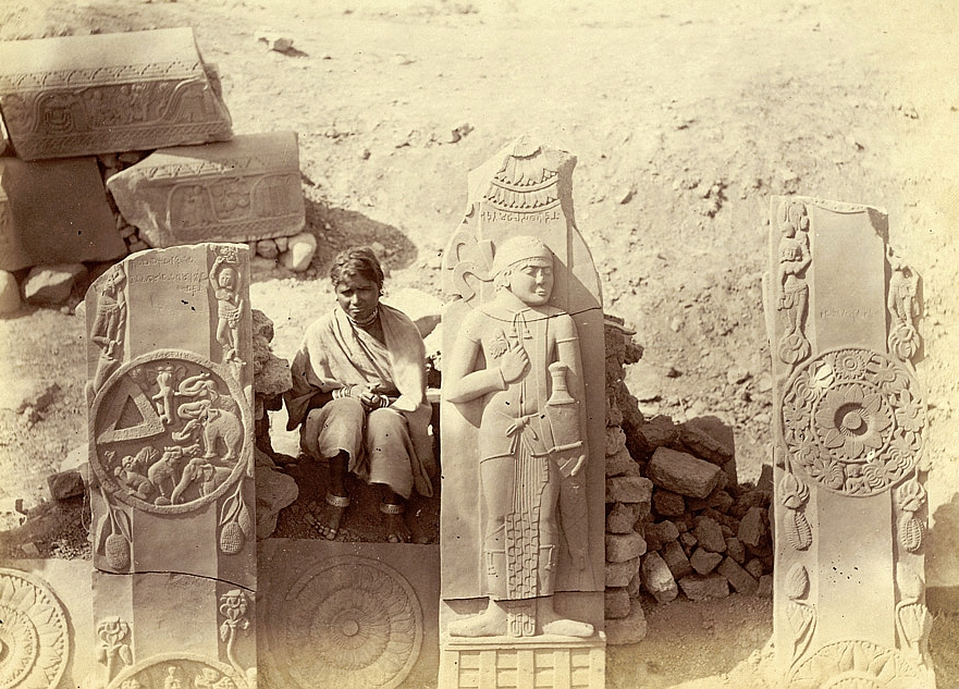 An Indo-Greek -Bharhut excavations